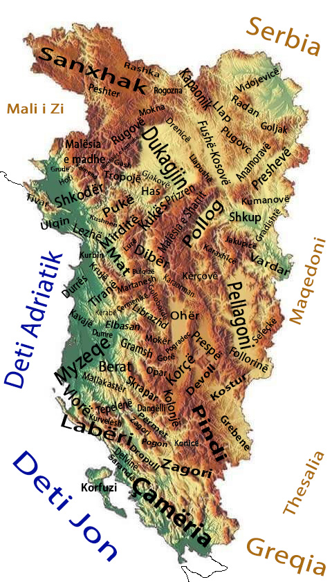 Great Albanian nation map with provinces.